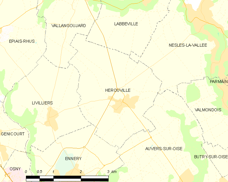 Map of French municipality Hérouville